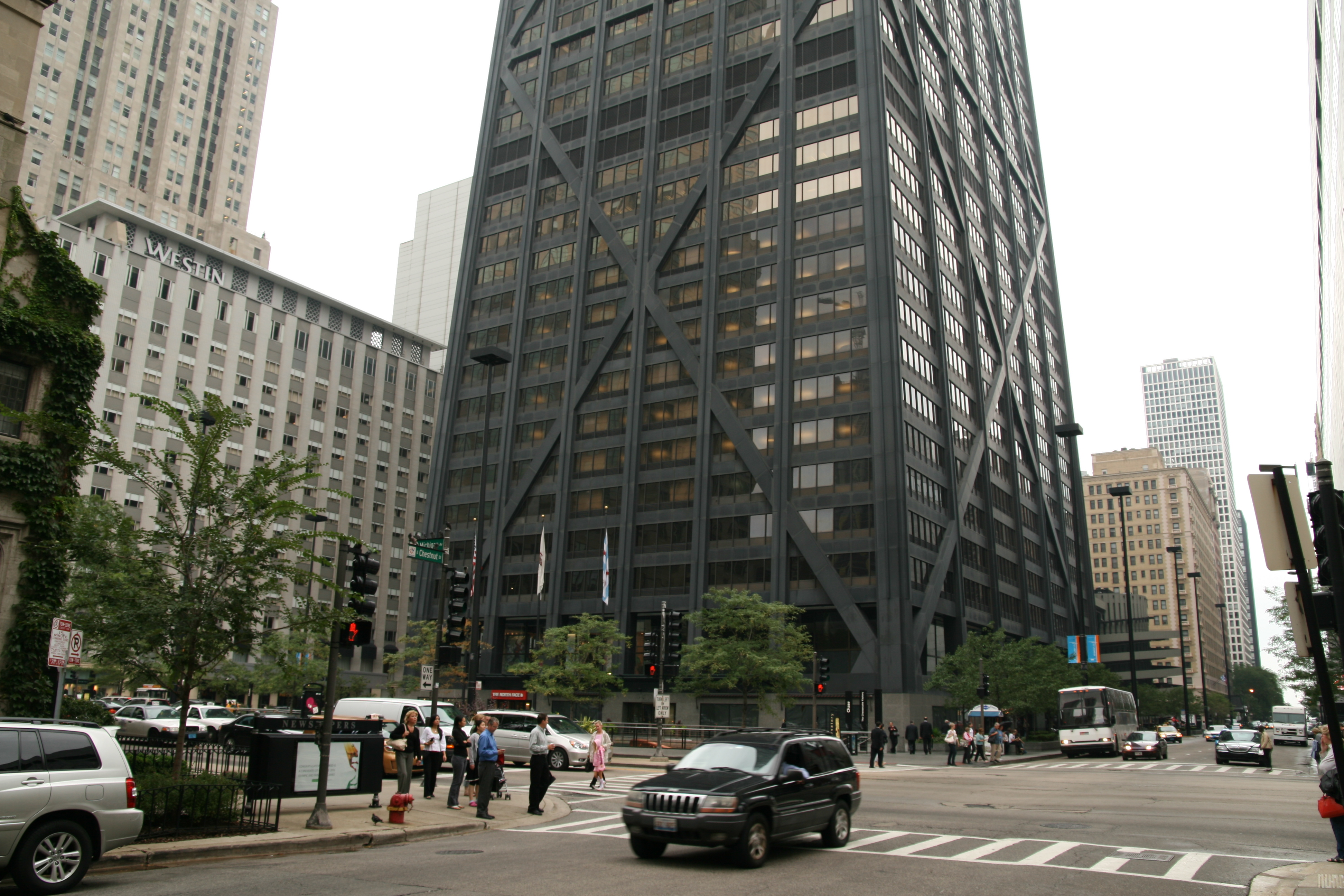 The base of the 100-story John Hancock Center skyscraper in Chicago, seen from the corner of N Michigan Avenue and E Chestnut St.